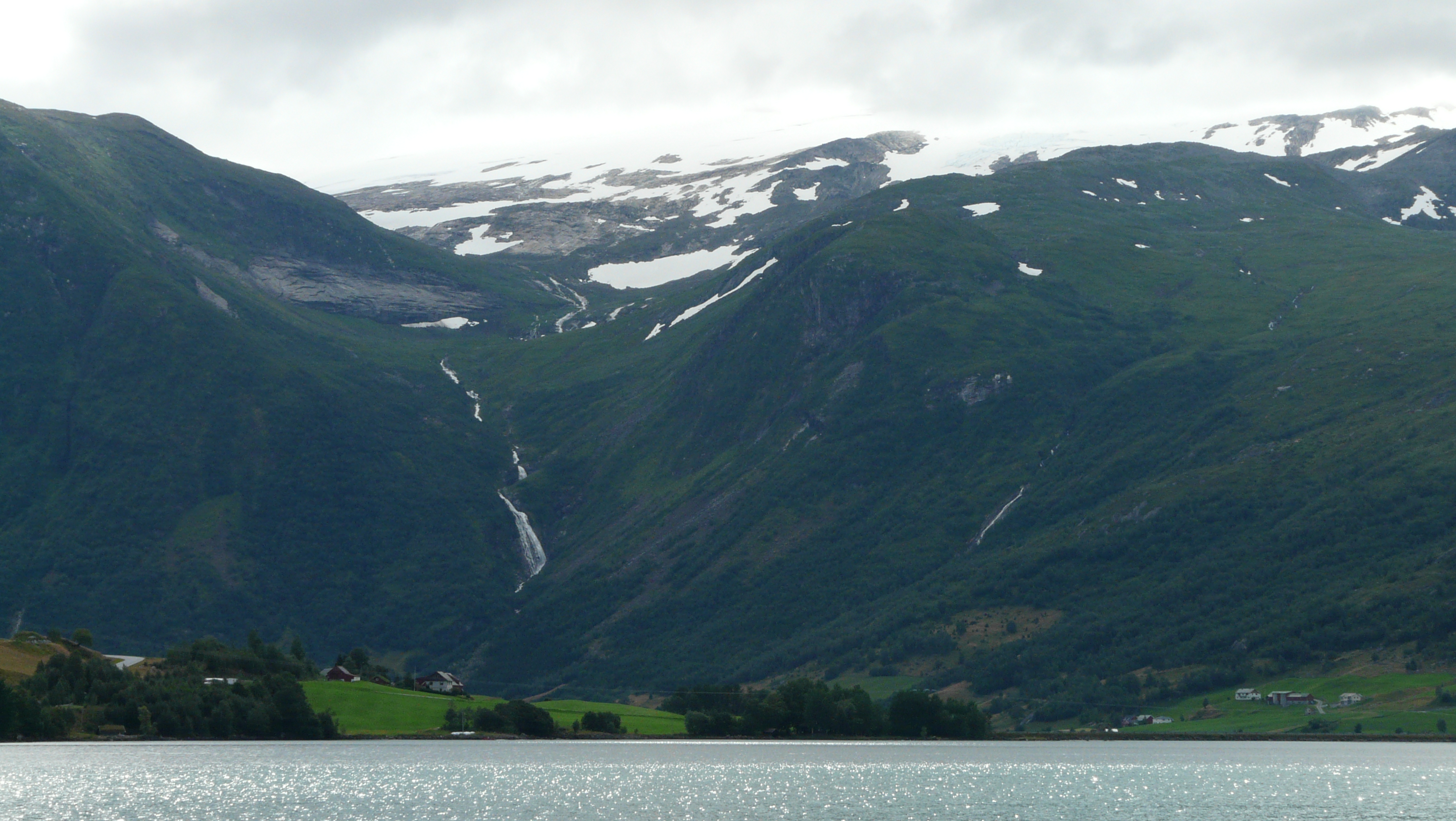 Grovabreen above Jølstravatnet as seen from the opposite coast in 2008 August.